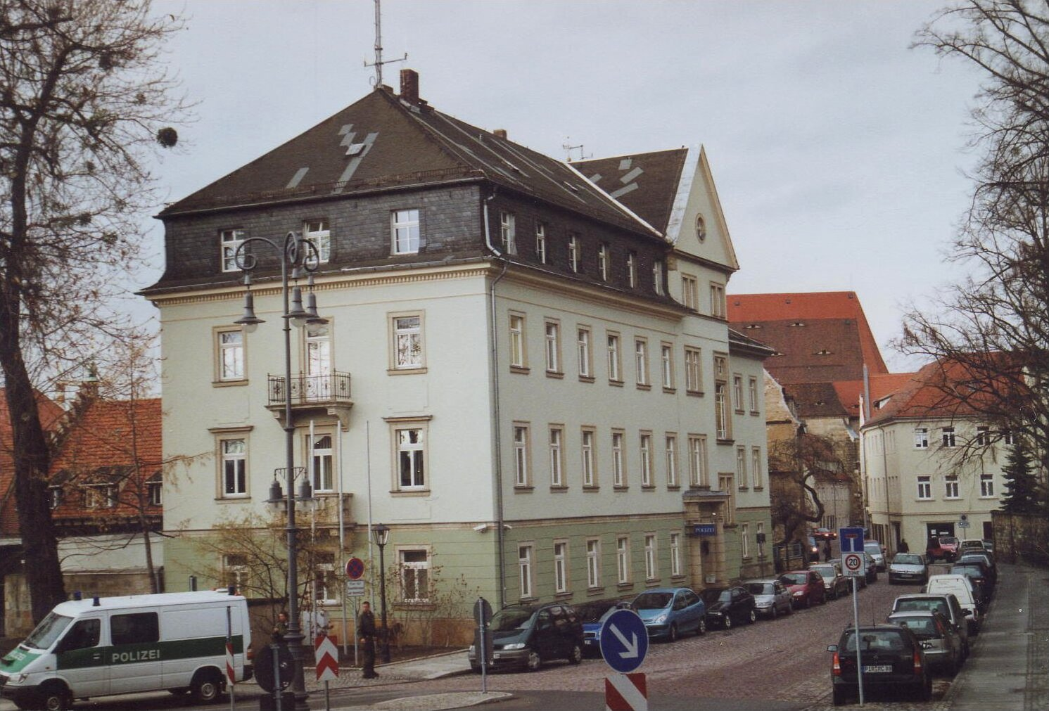 Pirna: View on the former house of the administration of Pirna county, mentioned as "Amtshauptmannschaft" (today "Landkreis"). The building is nowadays used as a police station.